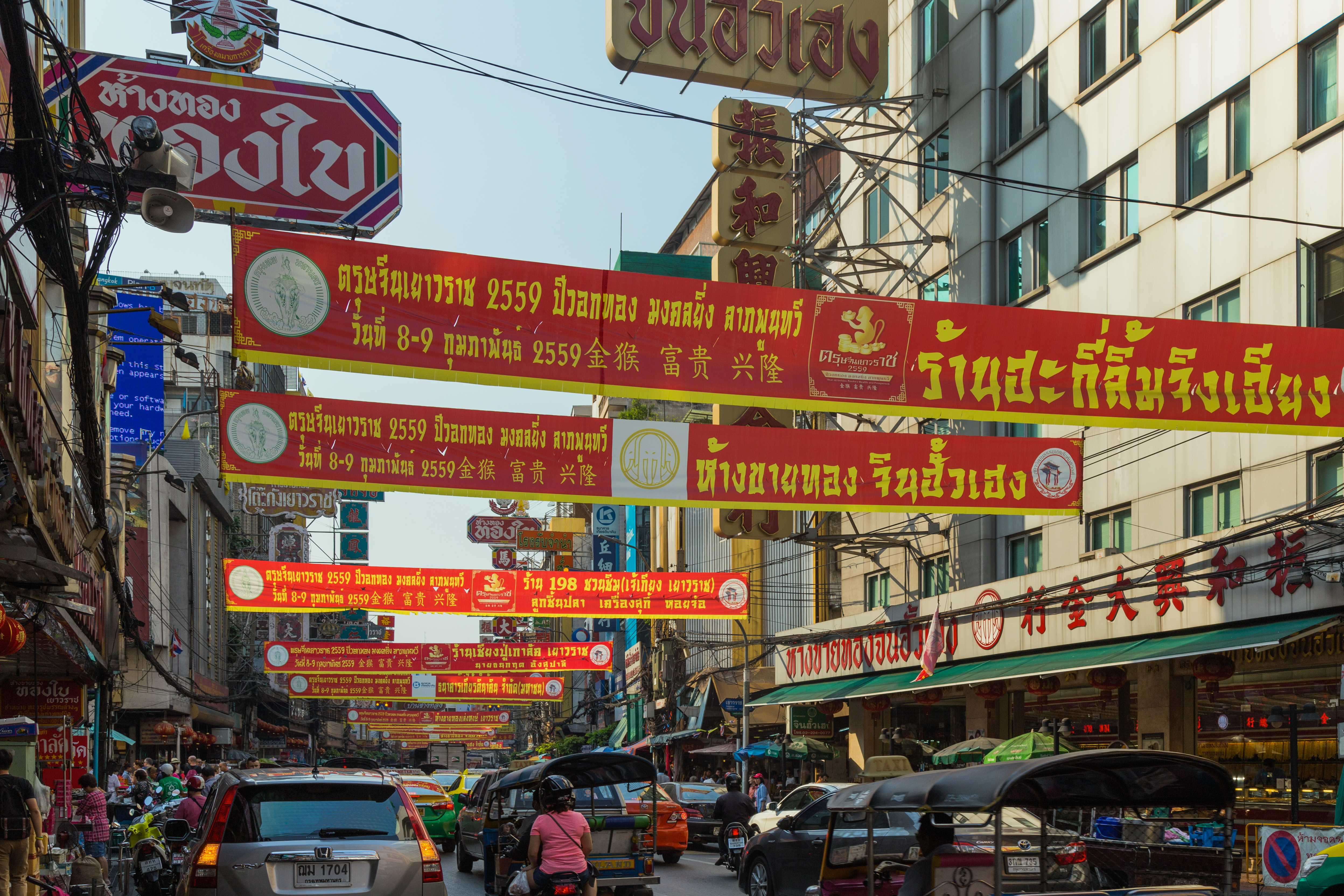 Yaowarat Road. Samphanthawong District, Bangkok, Thailand.